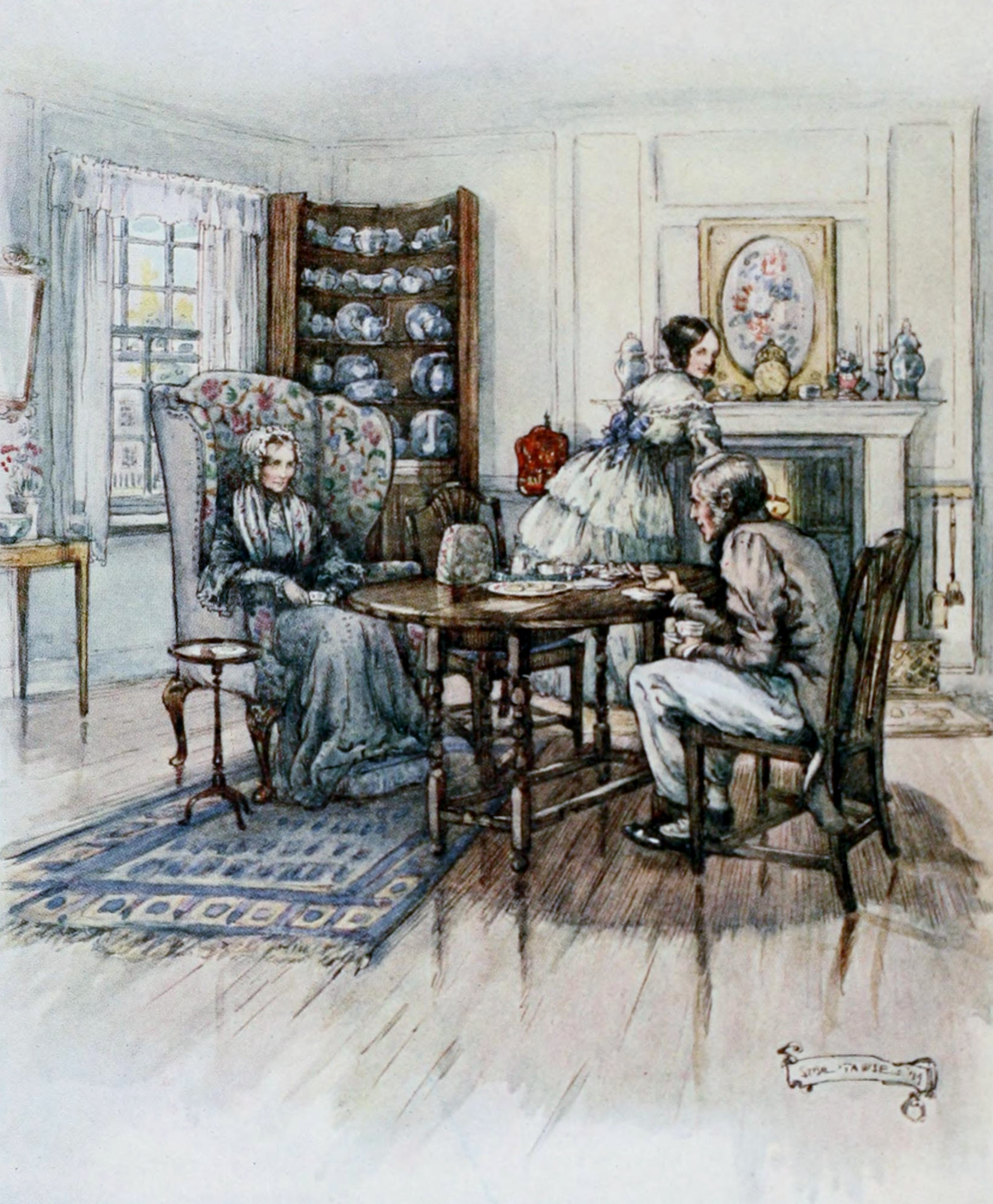 Miss Matty and her brother Peter from Cranford by Elizabeth Gaskell